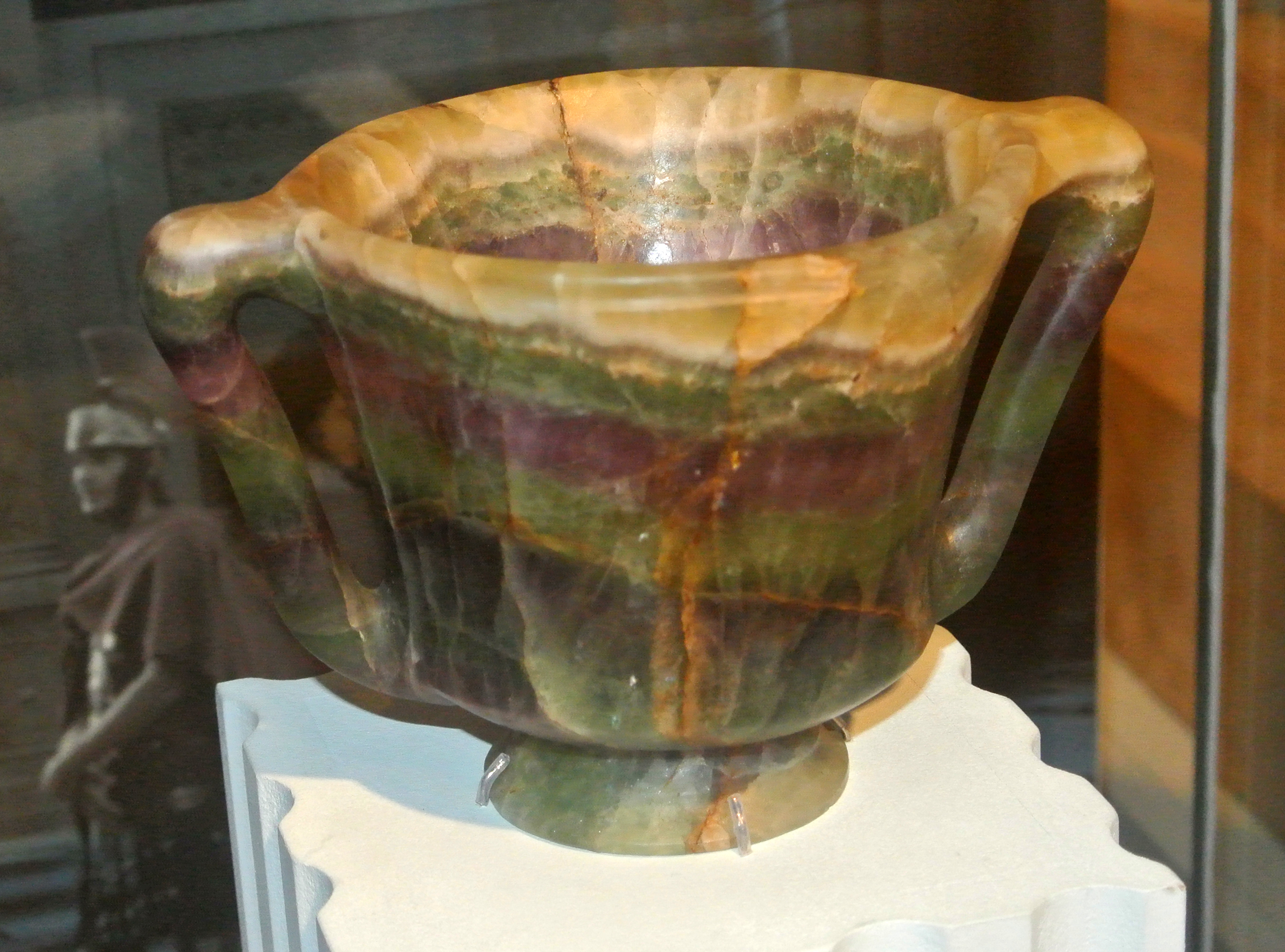 Crawford Cup (Roman, 50-100 CE) composed of fluorite. British Museum; specimen photographed while part of a temporary exhibit in Leeds City Museum.